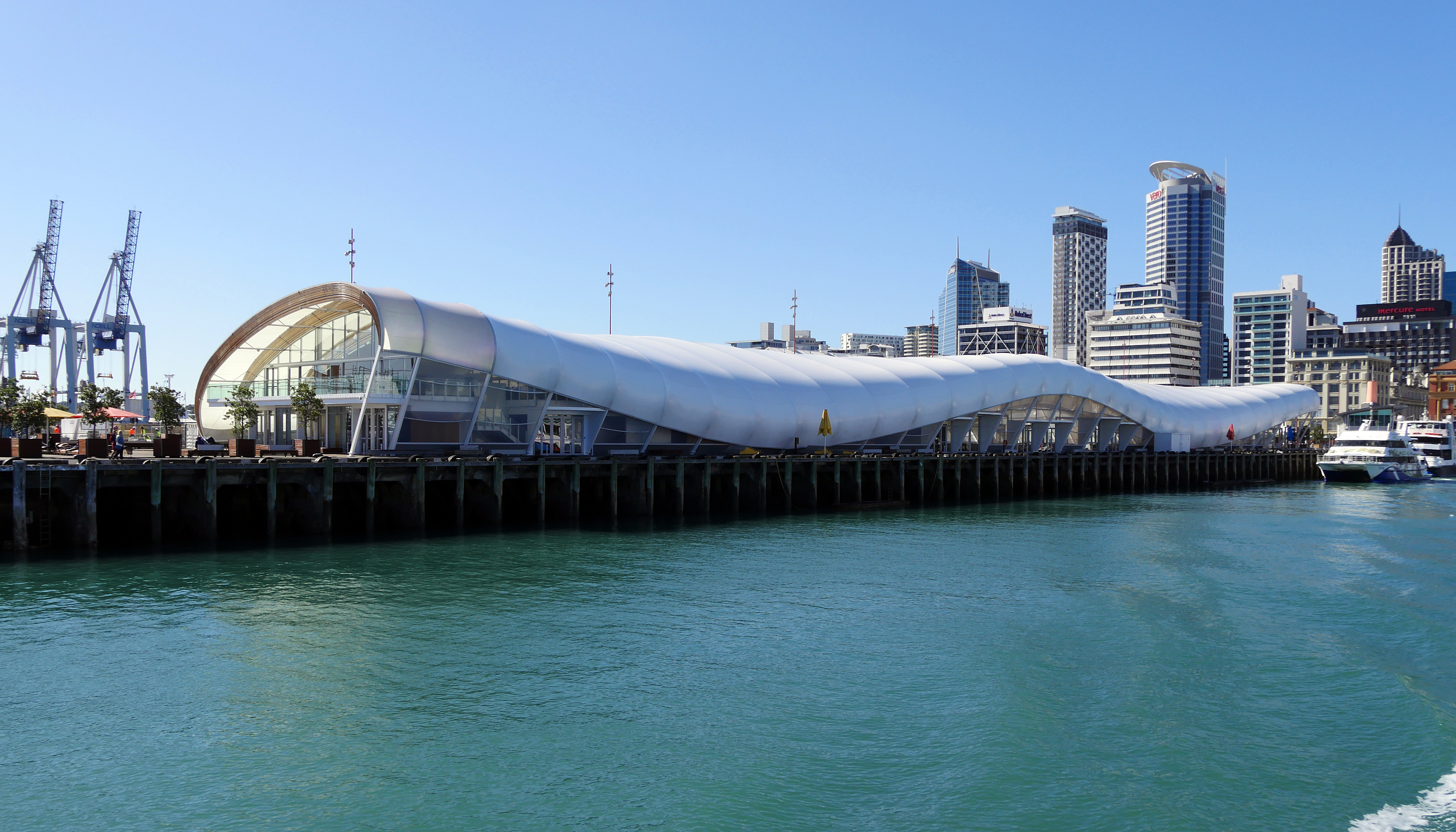 Ferry Terminal 1, Queens Warf, Auckland, North Island, New Zealand